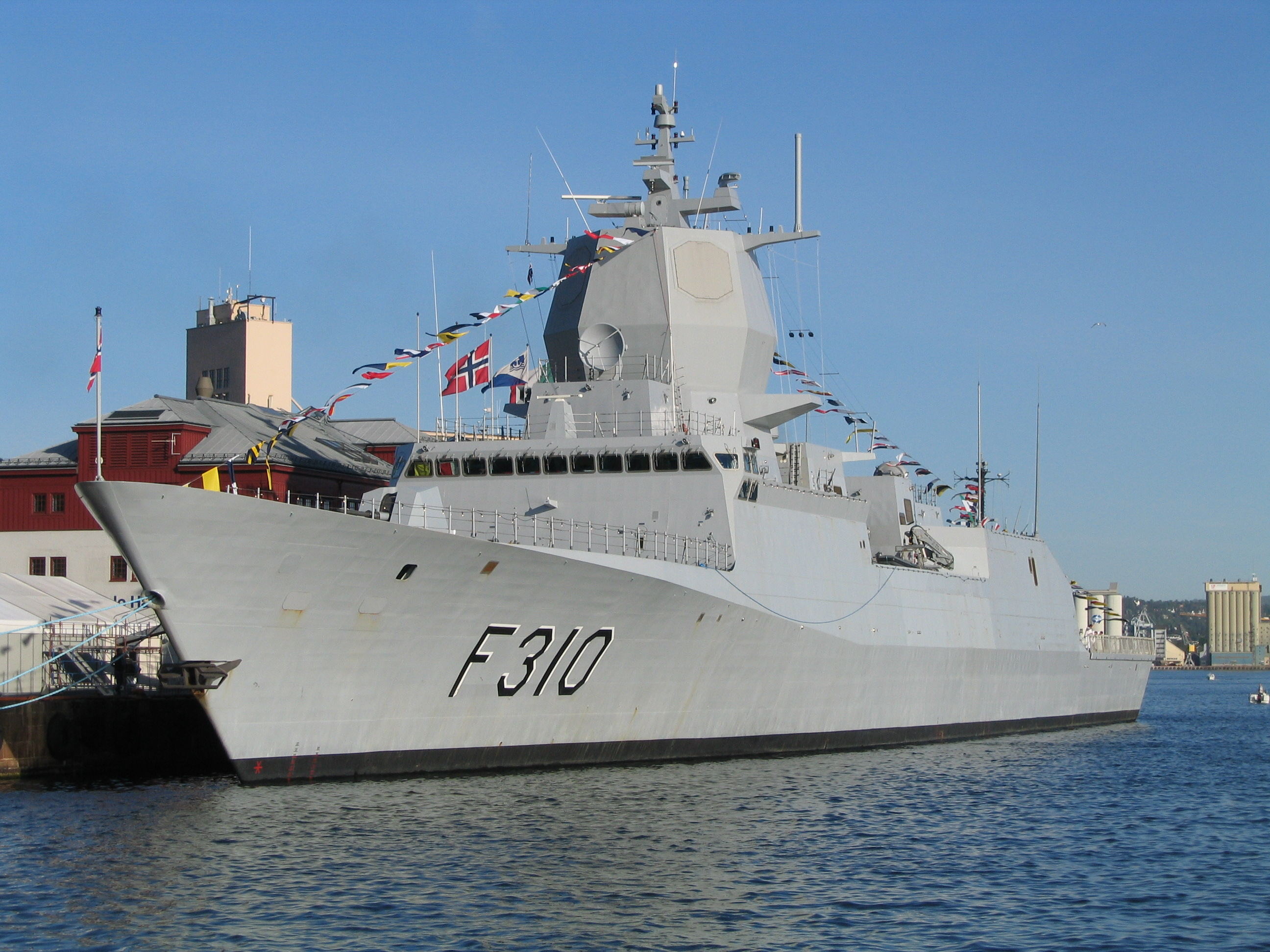 The frigate KNM Fridtjof Nansen at port in Oslo on 2006-06-01.